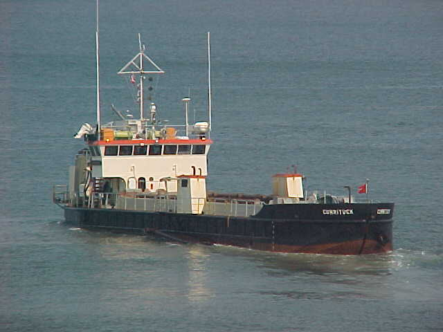 US Army Corps of Engineers split hopper dredge Currituck at Virginia Beach. Hopper is empty, as the ship just emptied a load.